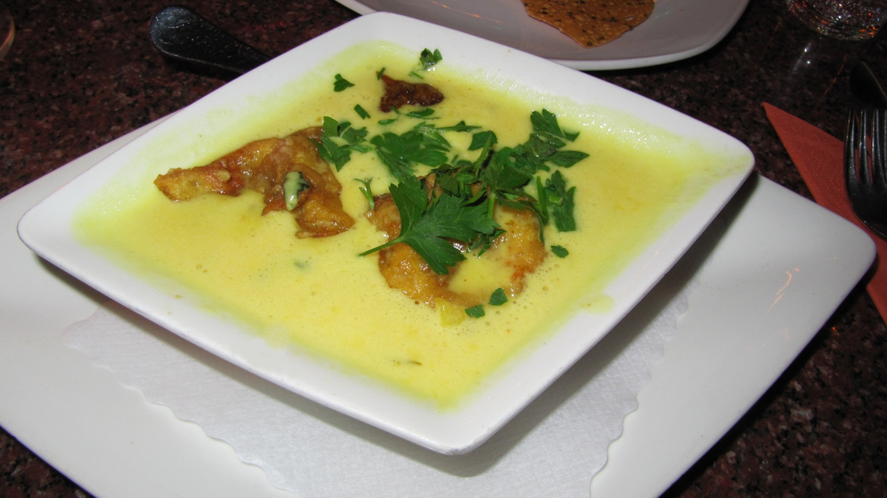 Mulligatawny Soup as served at the Indish restaurant AMRIT of Berlin (20.9.2009)